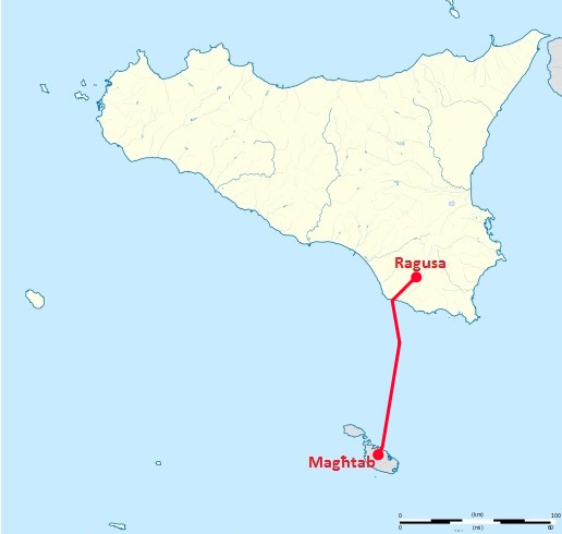 Route of the HVAC Malta–Sicily interconnector.